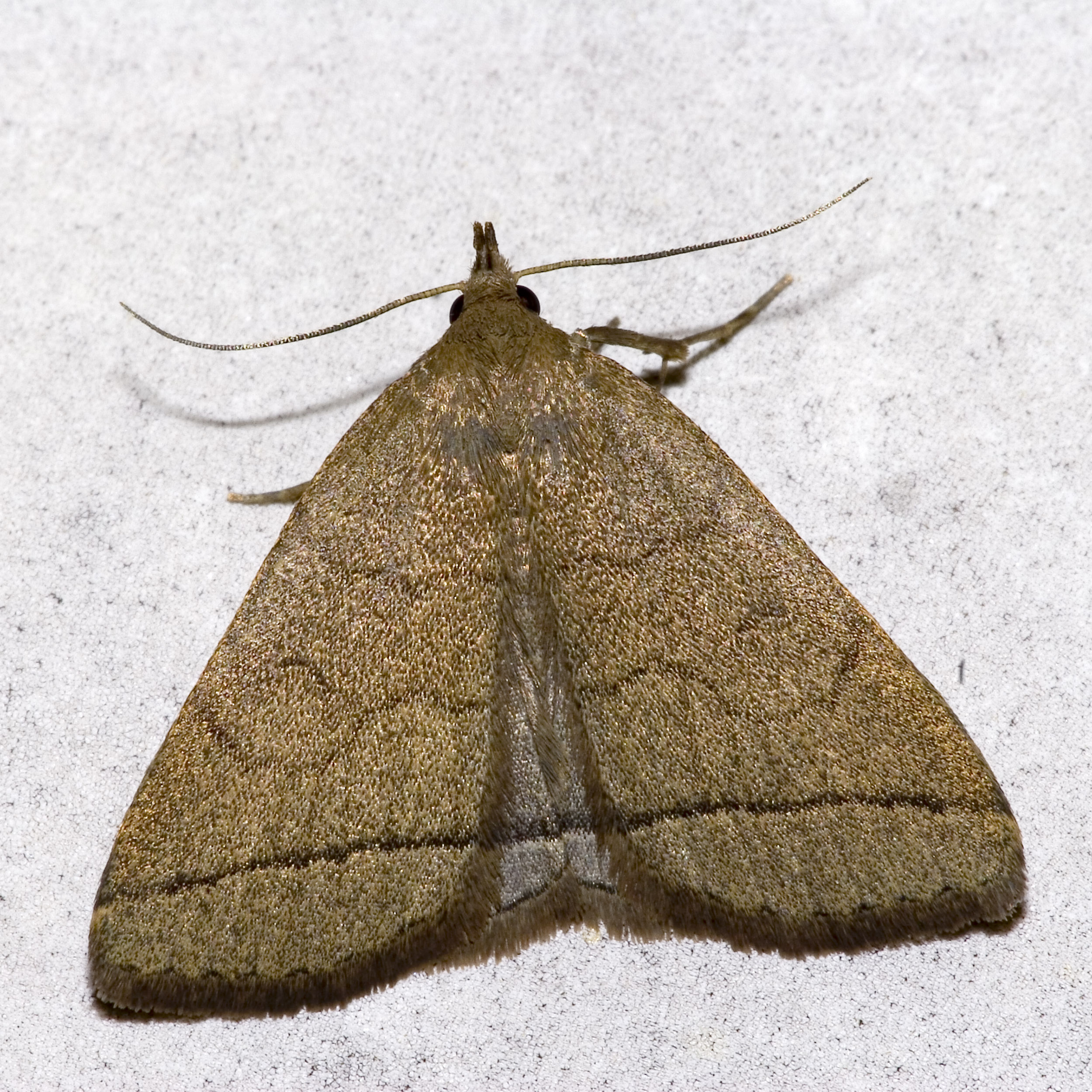 Please report references to .